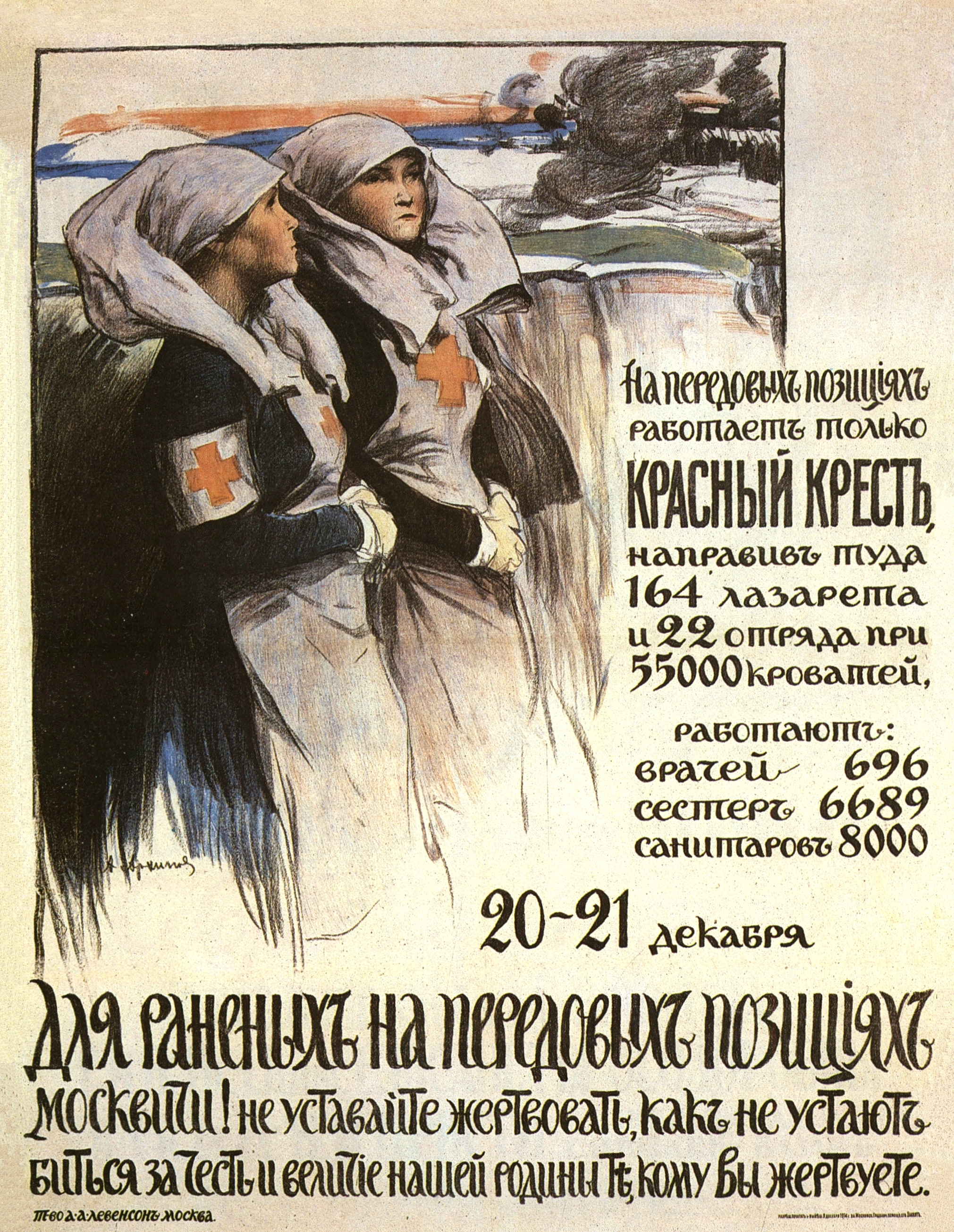 Poster of the Russian Red Cross pre-Christmas campaign to collect donations for the wounded at the front. Moscow, December 1914.